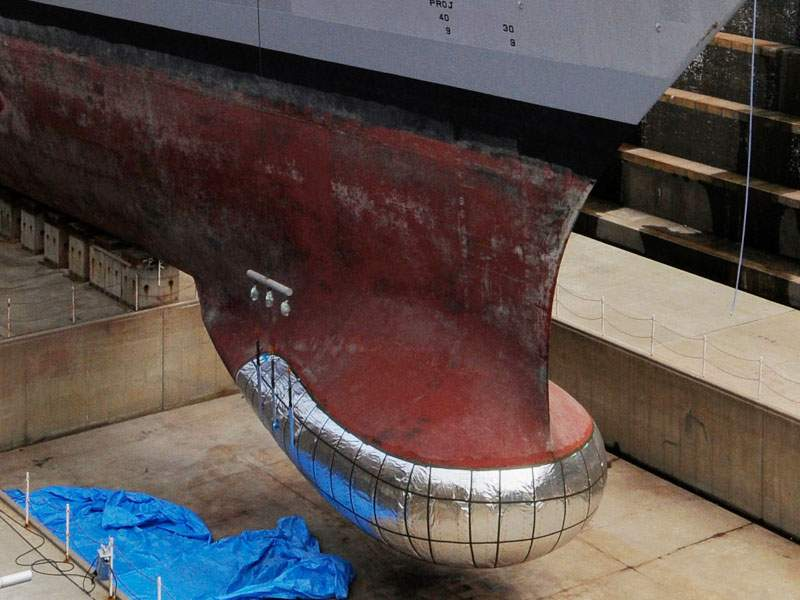 090112-N-2638R-002 YOKOSUKA, Japan (Jan. 12, 2008) The Ticonderoga-class guided-missile cruiser USS Shiloh (CG 67) is in dry dock during a dry dock selective restricted availability. Shiloh is forward-deployed to Yokosuka, Japan and is part of Destroyer Squadron (DESRON) 15. (U.S. Navy photo by Mass Communication Specialist 3rd Class Bryan Reckard/Released)